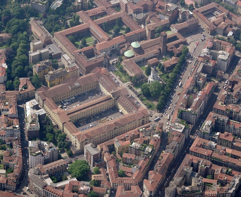 This is an aerial photograph of UCSC' campus in Milan (it.: Milano).